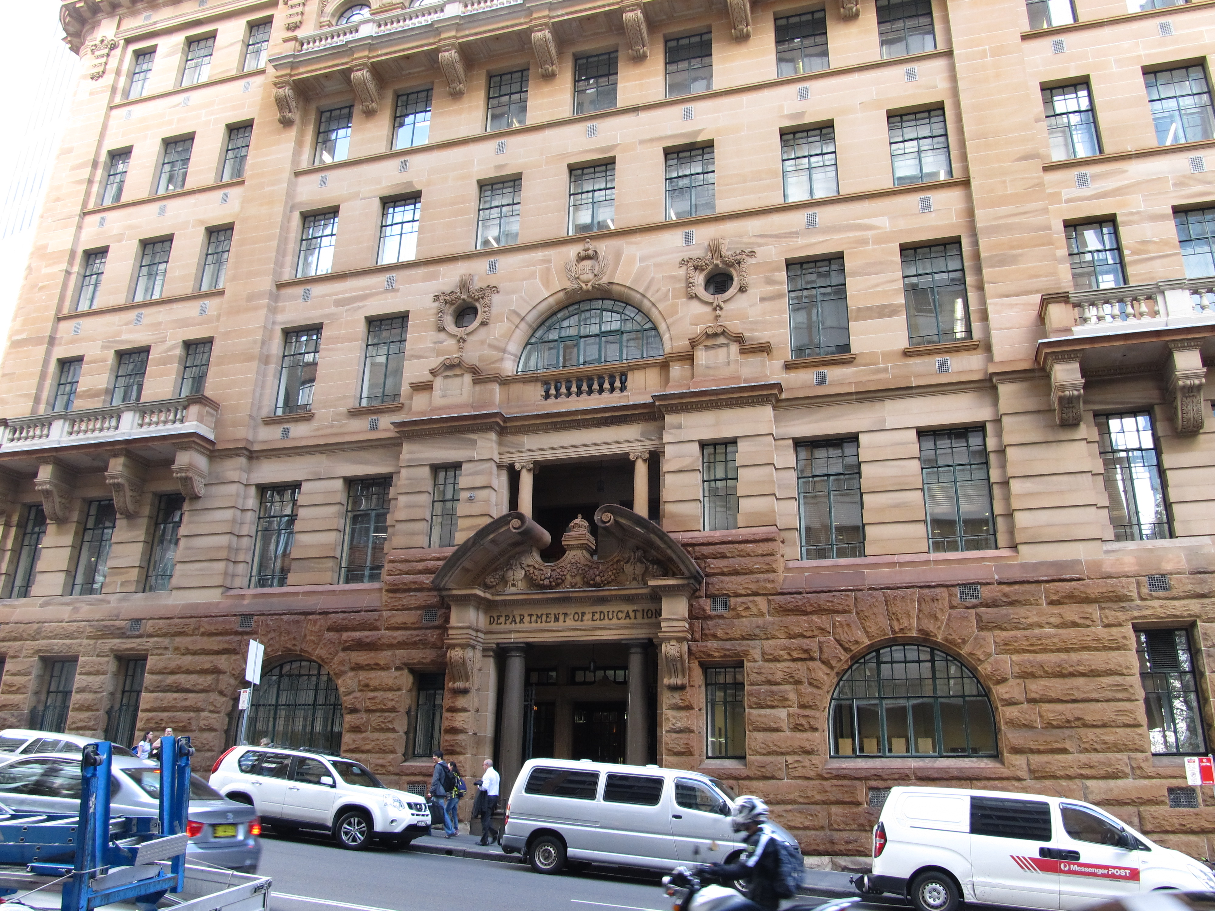 Historic Building, Australia, New South Wales. Department of Education Building in Bridge Street Sydney. Original north side of building in Bridge Street.